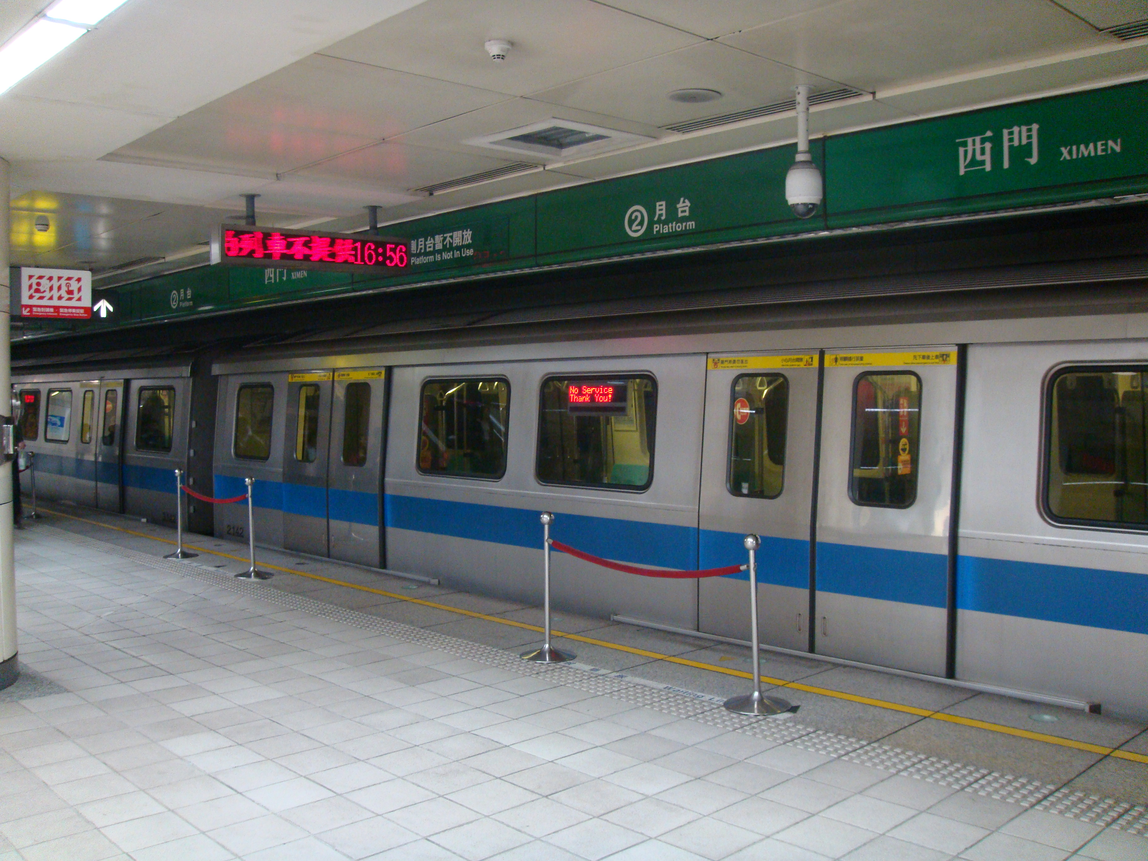 Taipei MRT C321 rolling stock No.142 at Platform 2, Ximen Station.